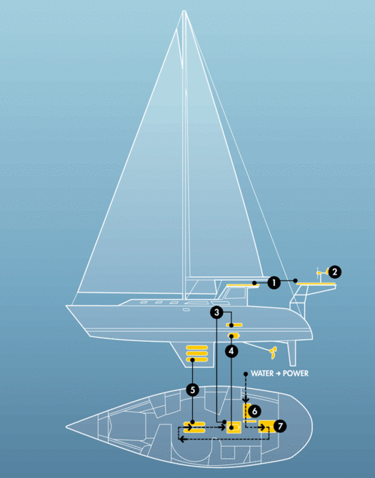 diagram of XV/1 sailboat